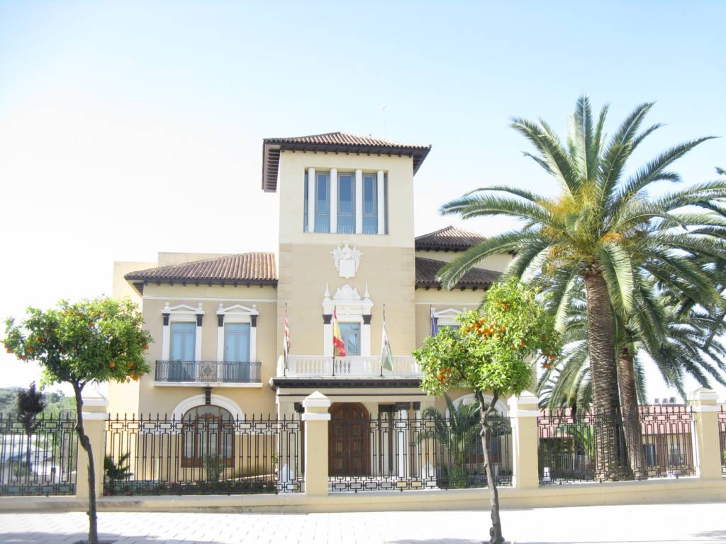 Teatro El jardinito, of Cabra (Córdoba), Spain